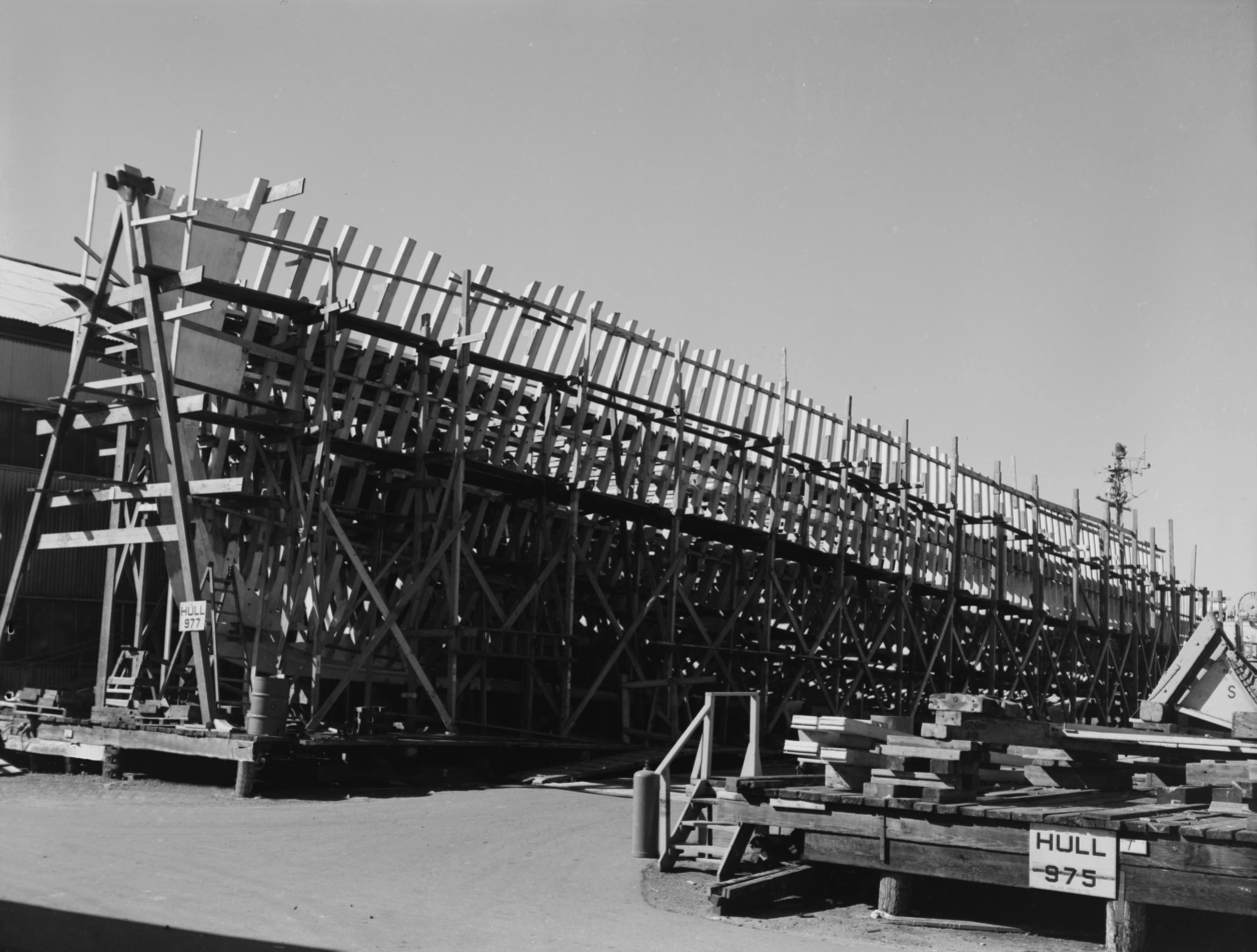 The U.S. Navy minesweeper USS Agile (MSO-421) under construction at Luders Marine Construction Co., Stamford, Connecticut (USA), in September 1954. Agile was laid down on 22 February 1954 and was commissioned on 21 June 1956.